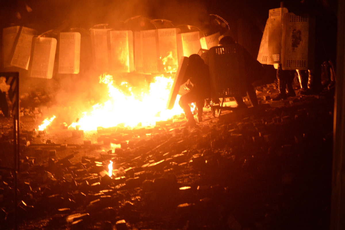 Interior troops holding protective position under Molotov Cocktail rain, Dynamivska str. Euromaidan Protests. Events of Jan 19, 2014-2